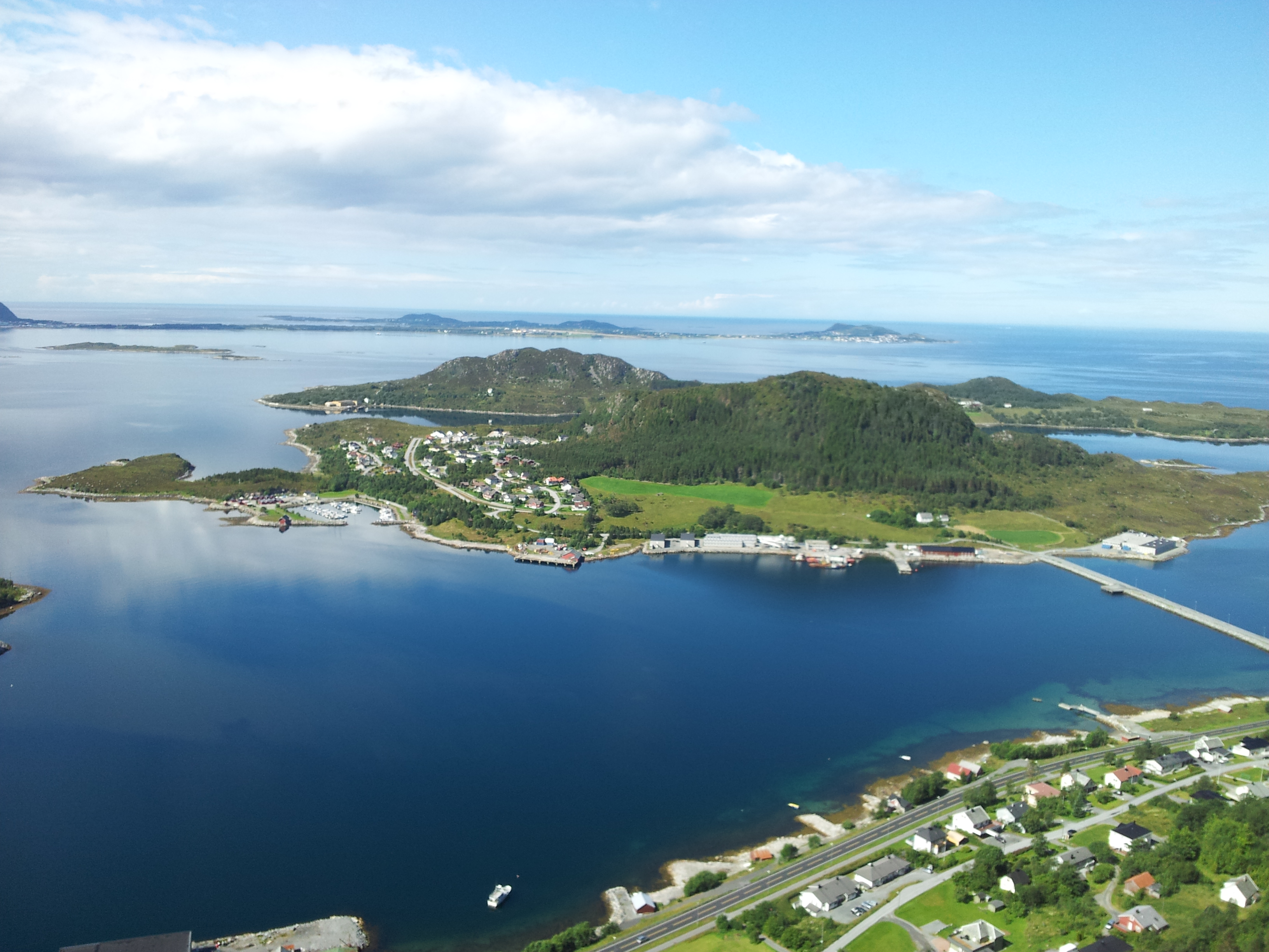 Terøy